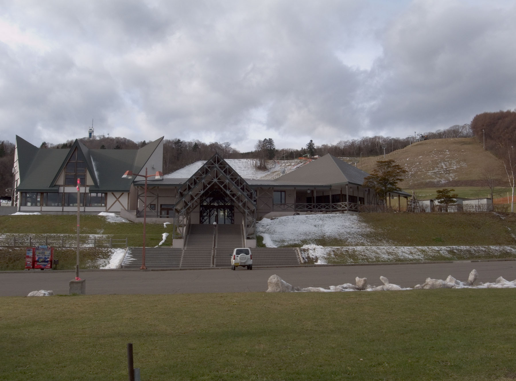 Mombetsu Oyama skiing ground, Mombetsu, Hokkaido, Japan